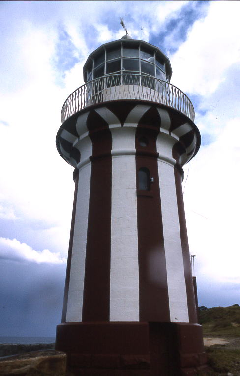 lighthouse, sydney